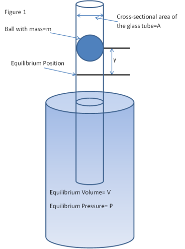 Created:Robert Watson